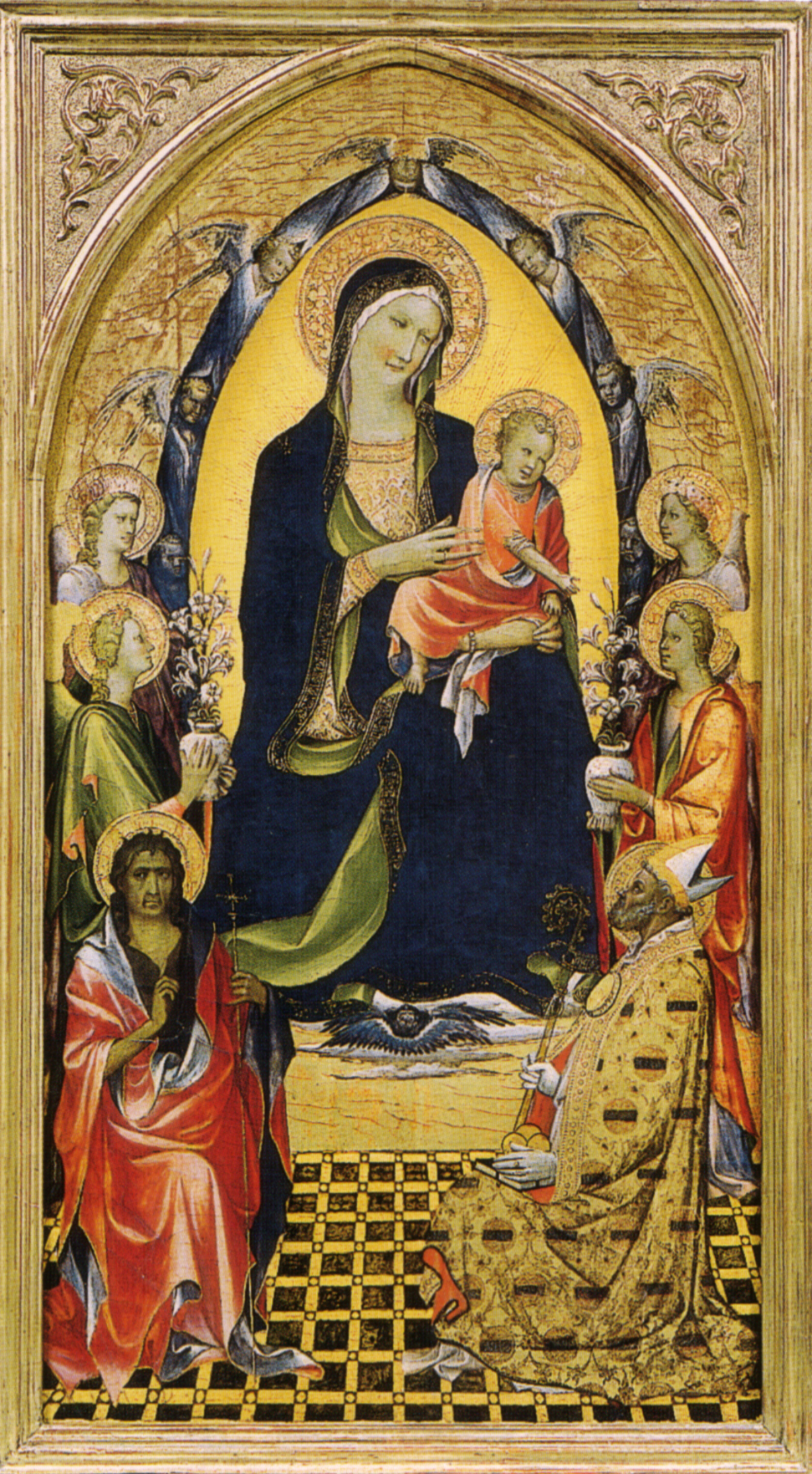 Madonna and Child and Saints